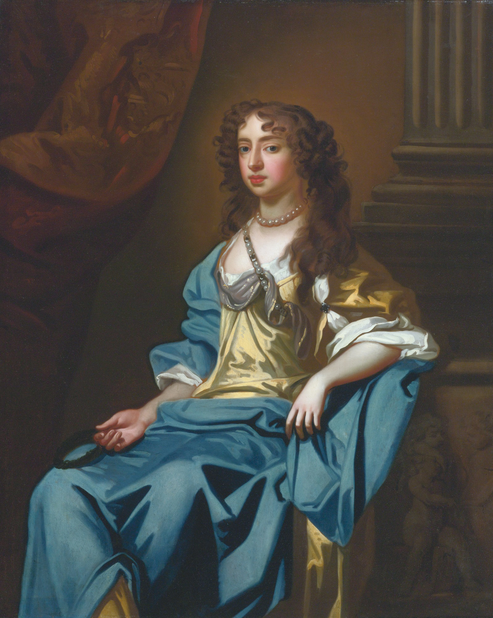 Gertrude, marchioness of Halifax oil on canvas 125 x 102 cm